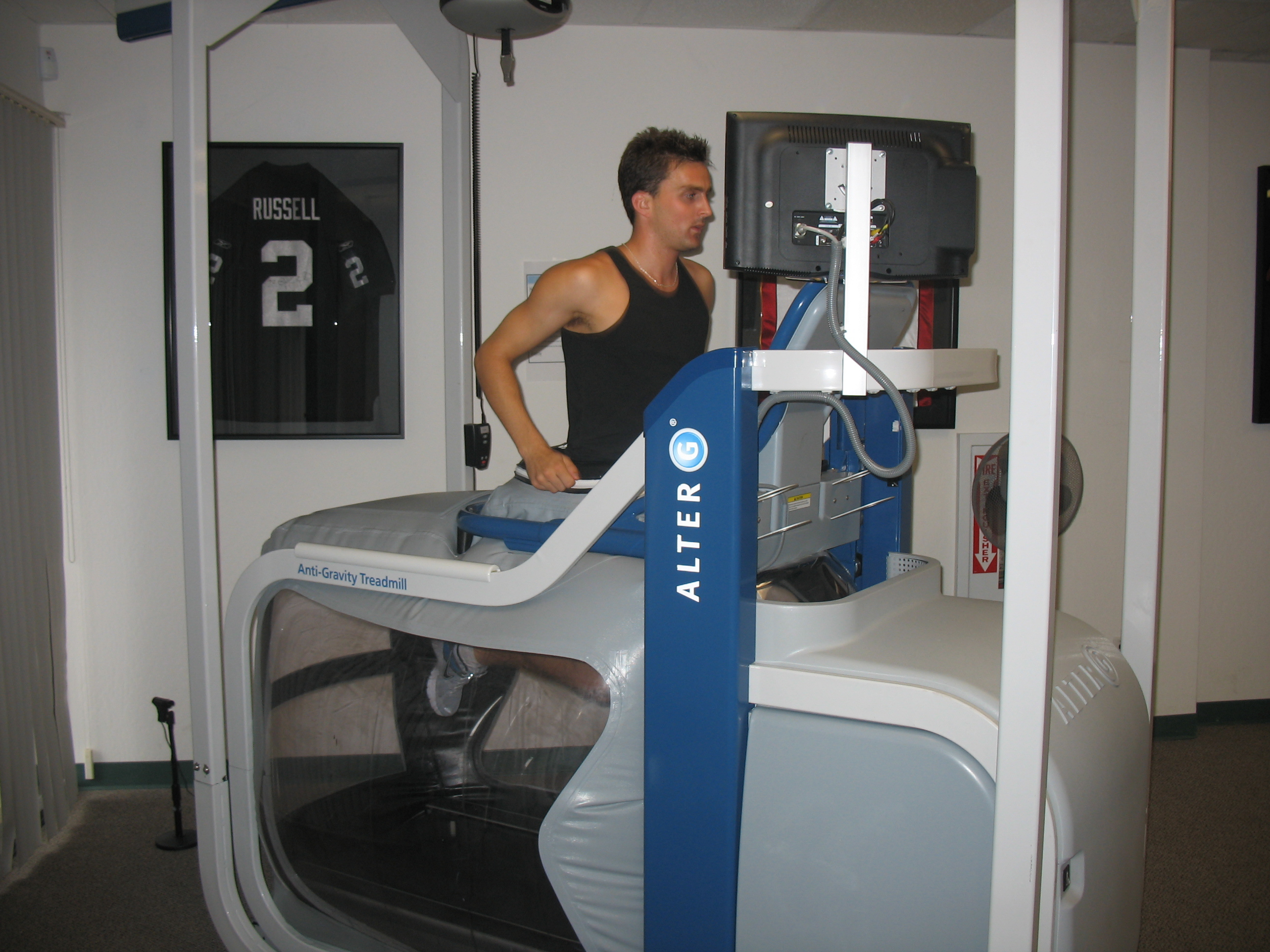 m320 anti gravity treadmill